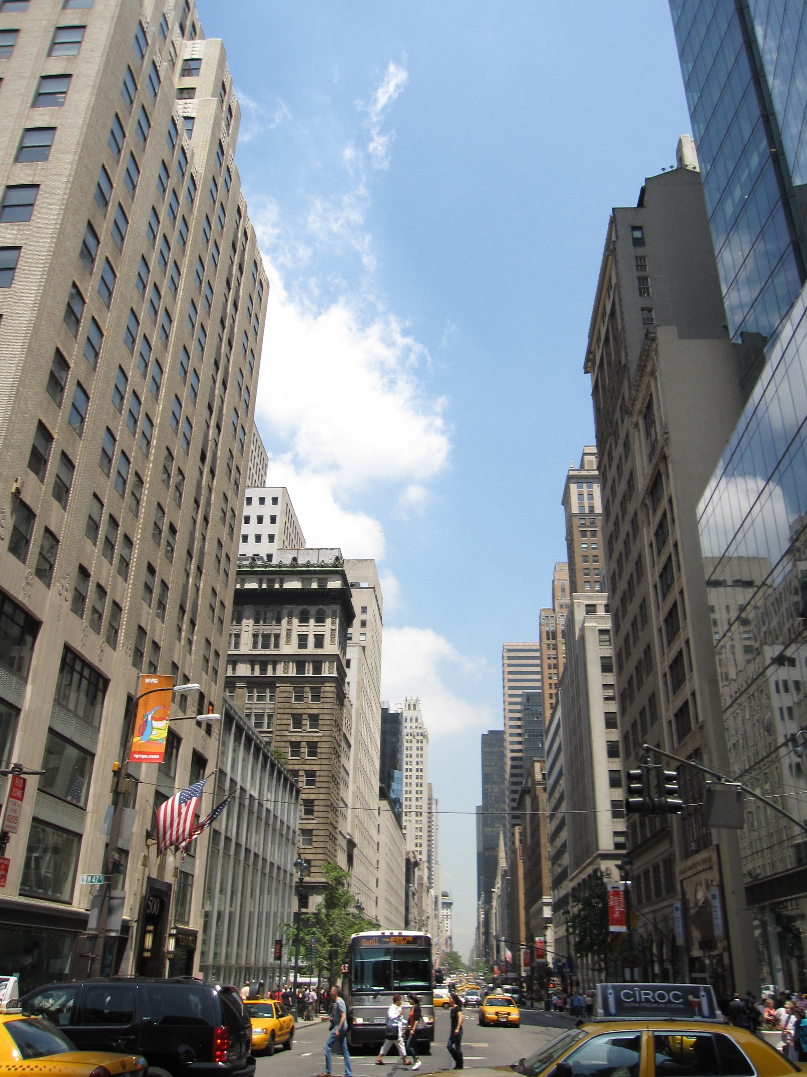 Corner of 42nd Street and 5th Avenue in New York